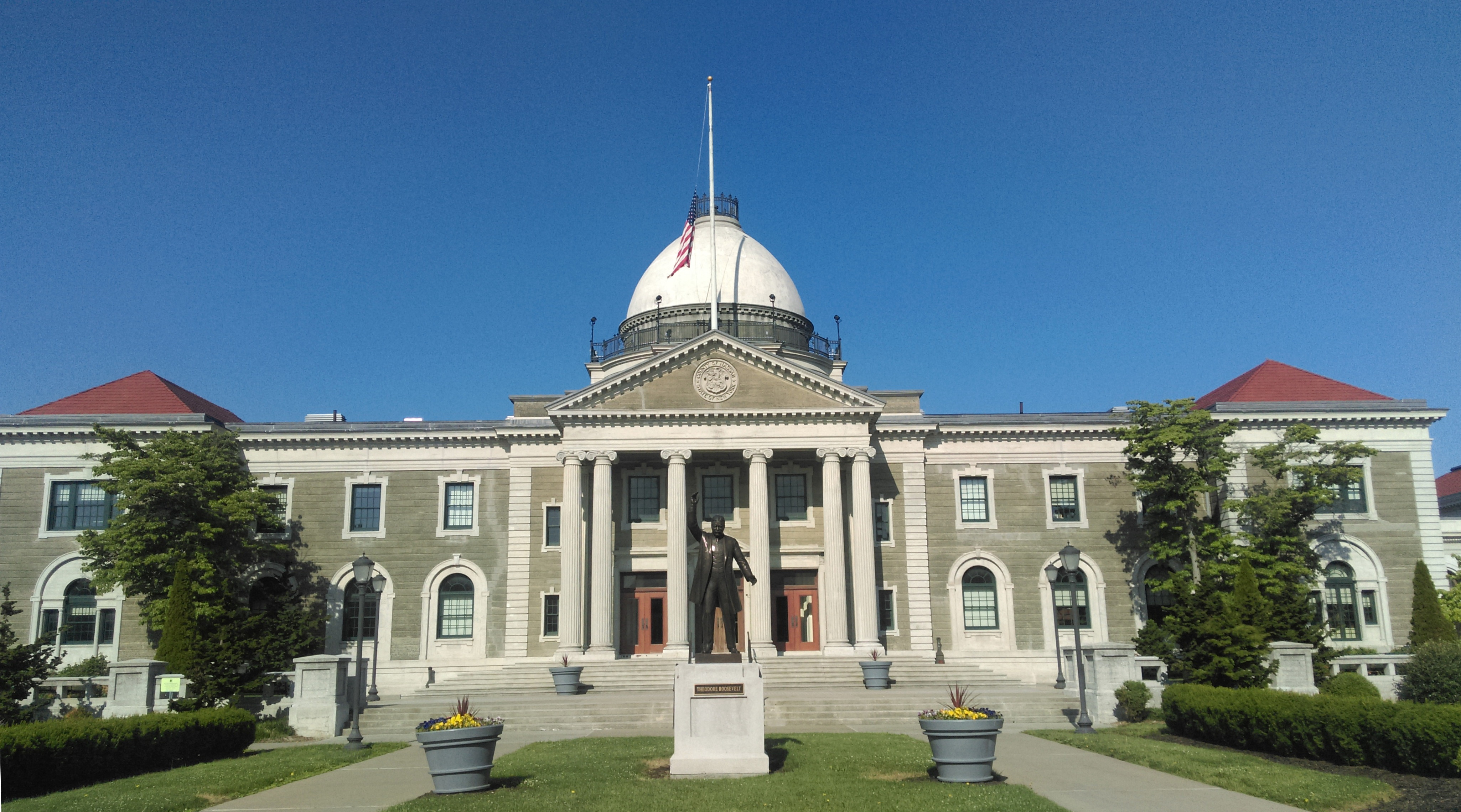 Looking west at county building on a sunny morning.